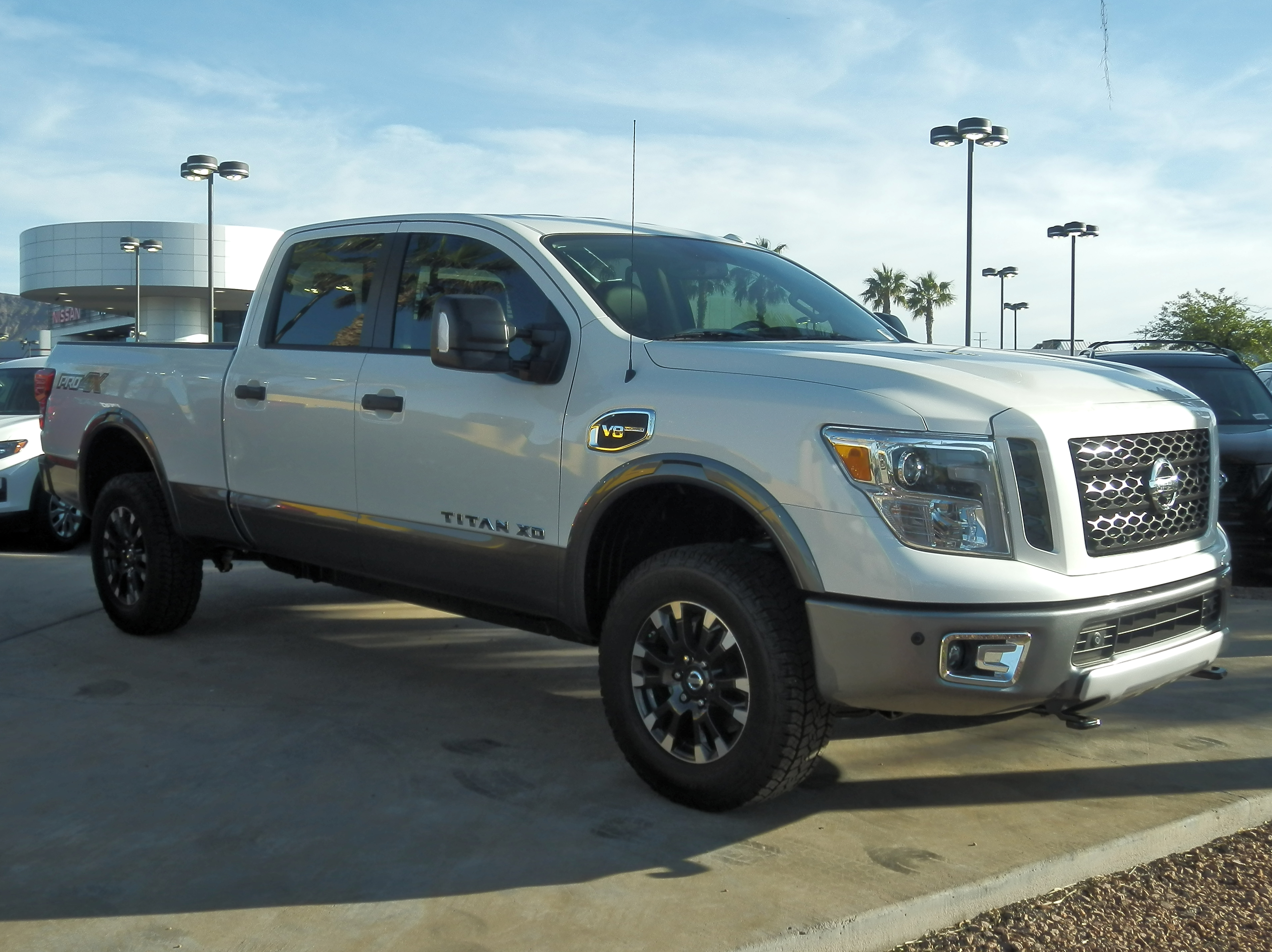 Nissan Titan in Las Vegas